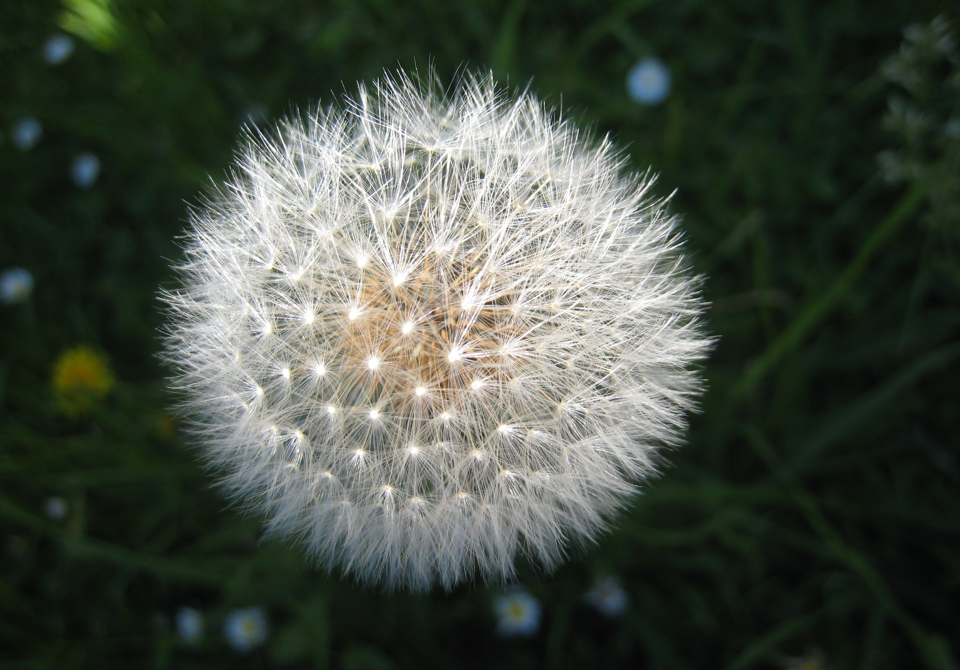 Seed head of common dandelion (Taraxacum officinale) in Auckland, New Zealand.